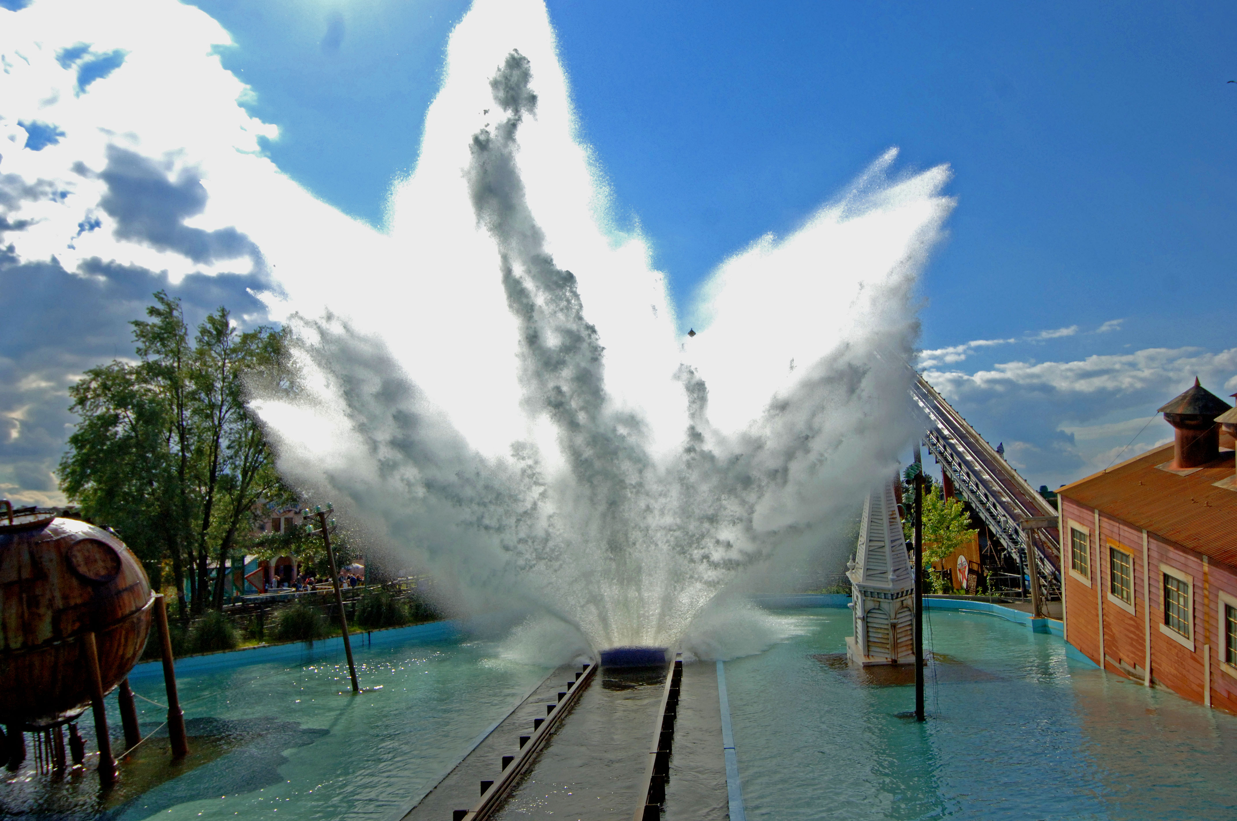 Tidal Wave with the splash at Thorpe Park